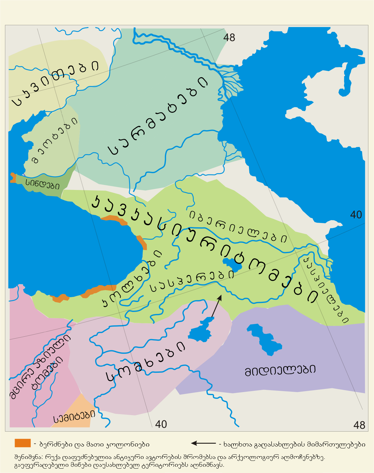 The Ethnic Map of Caucasus - centuries V - IV B.C.E., by "The World History", Vol.2, 1956 г., Russia